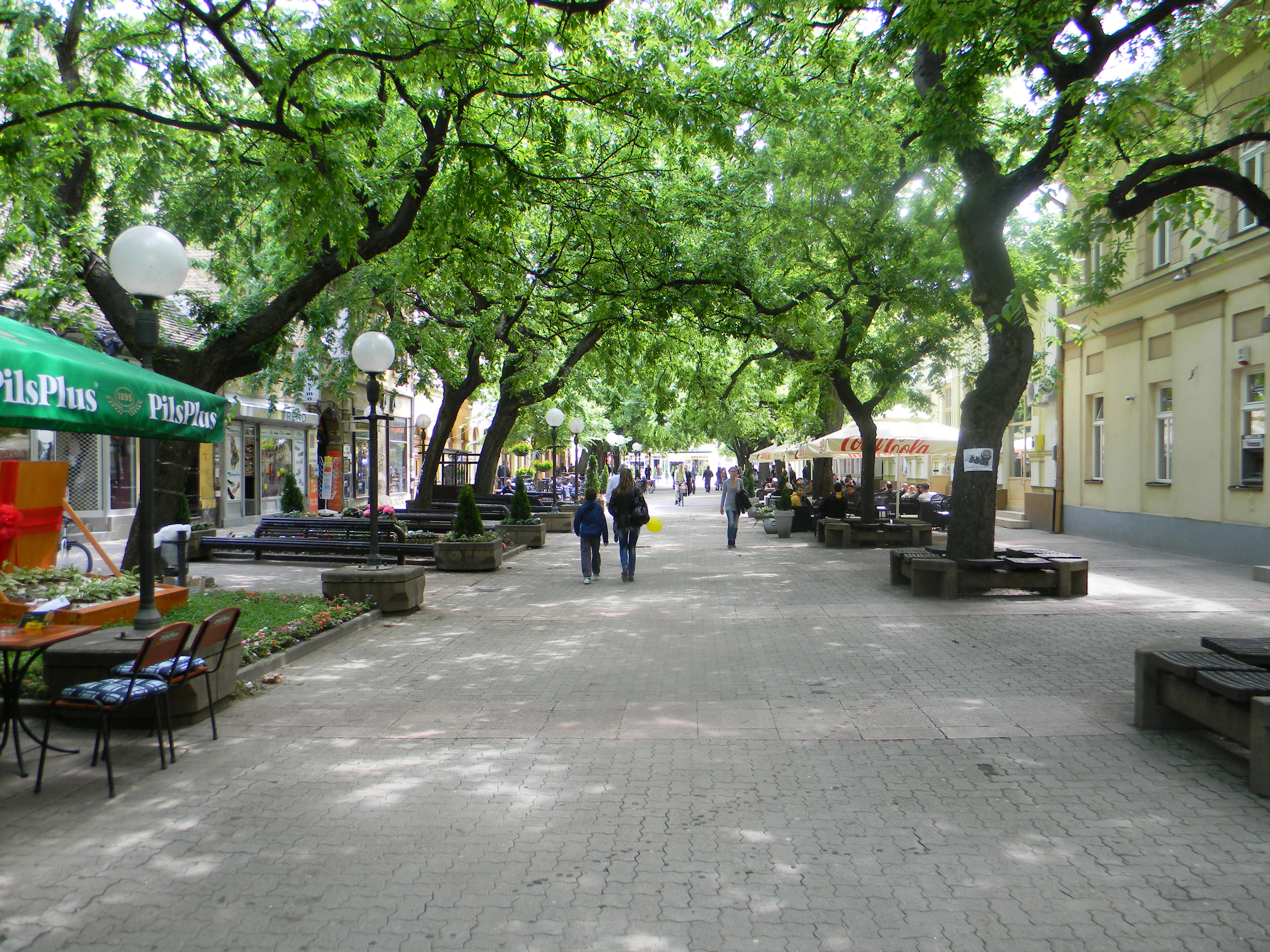 Downtown in Pančevo. (Korzo)